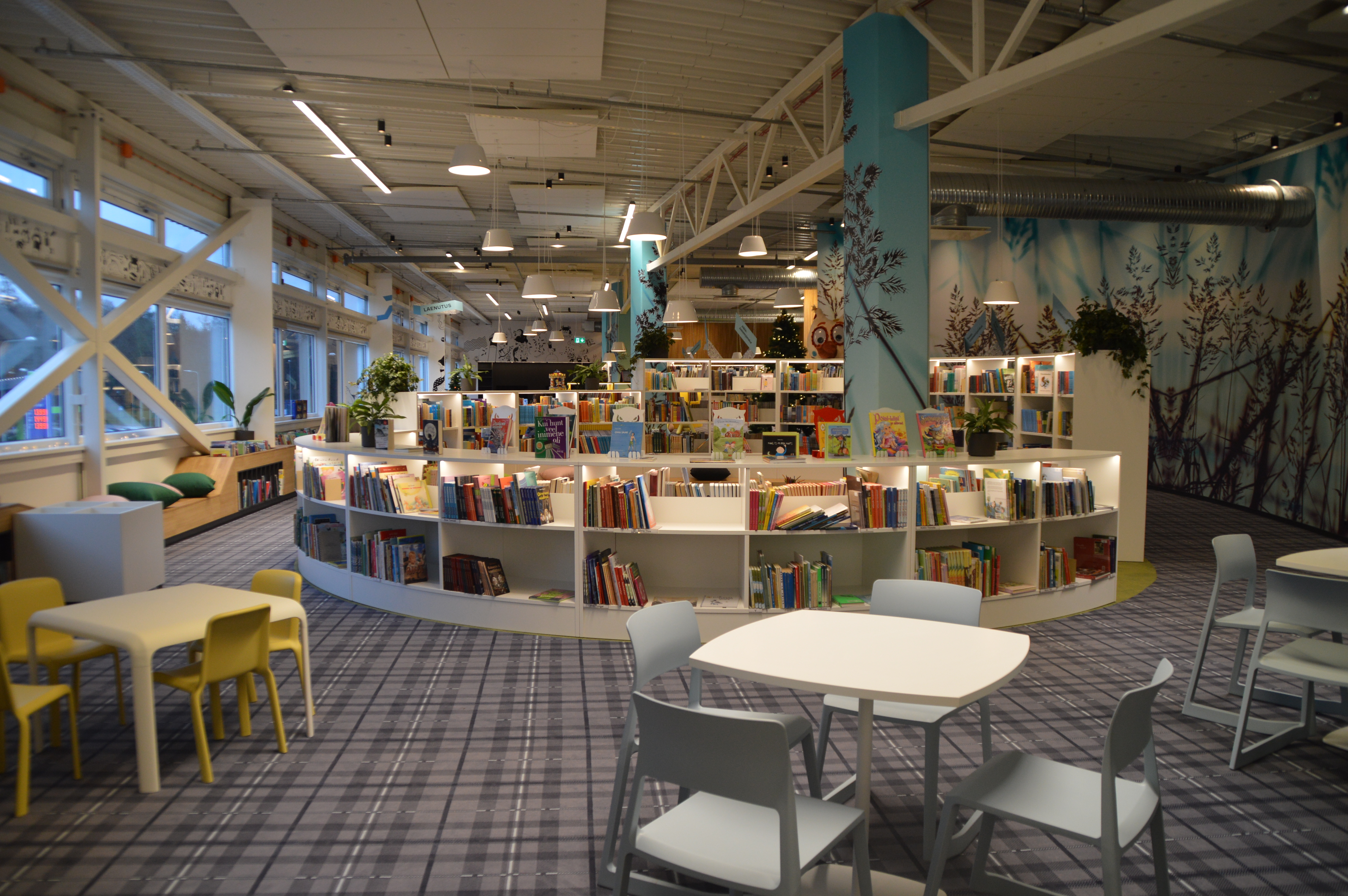 Viimsi Raamatukogu laste- ja noorteteenindus teisel korrusel